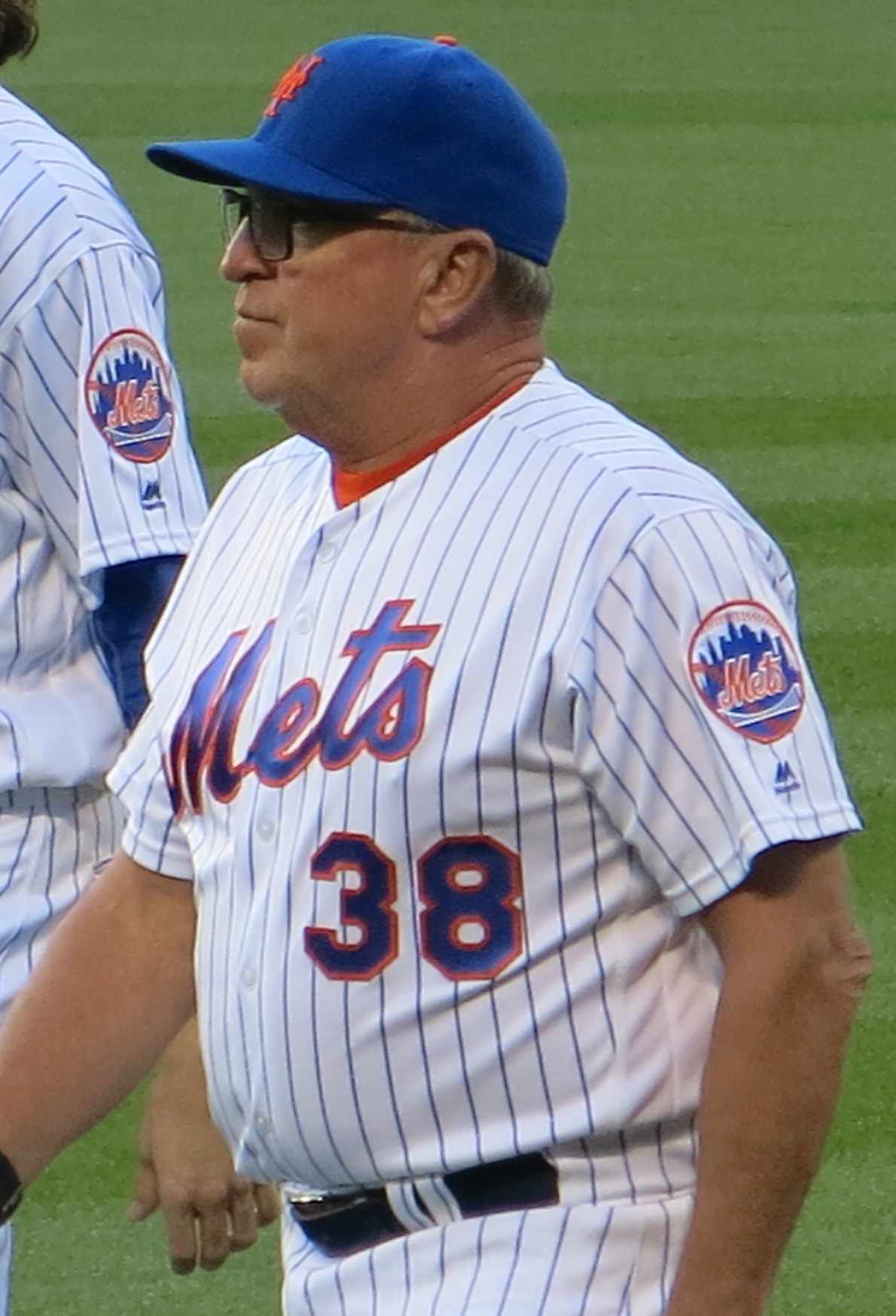 Dan Warthen of the New York Mets, August 2, 2016.